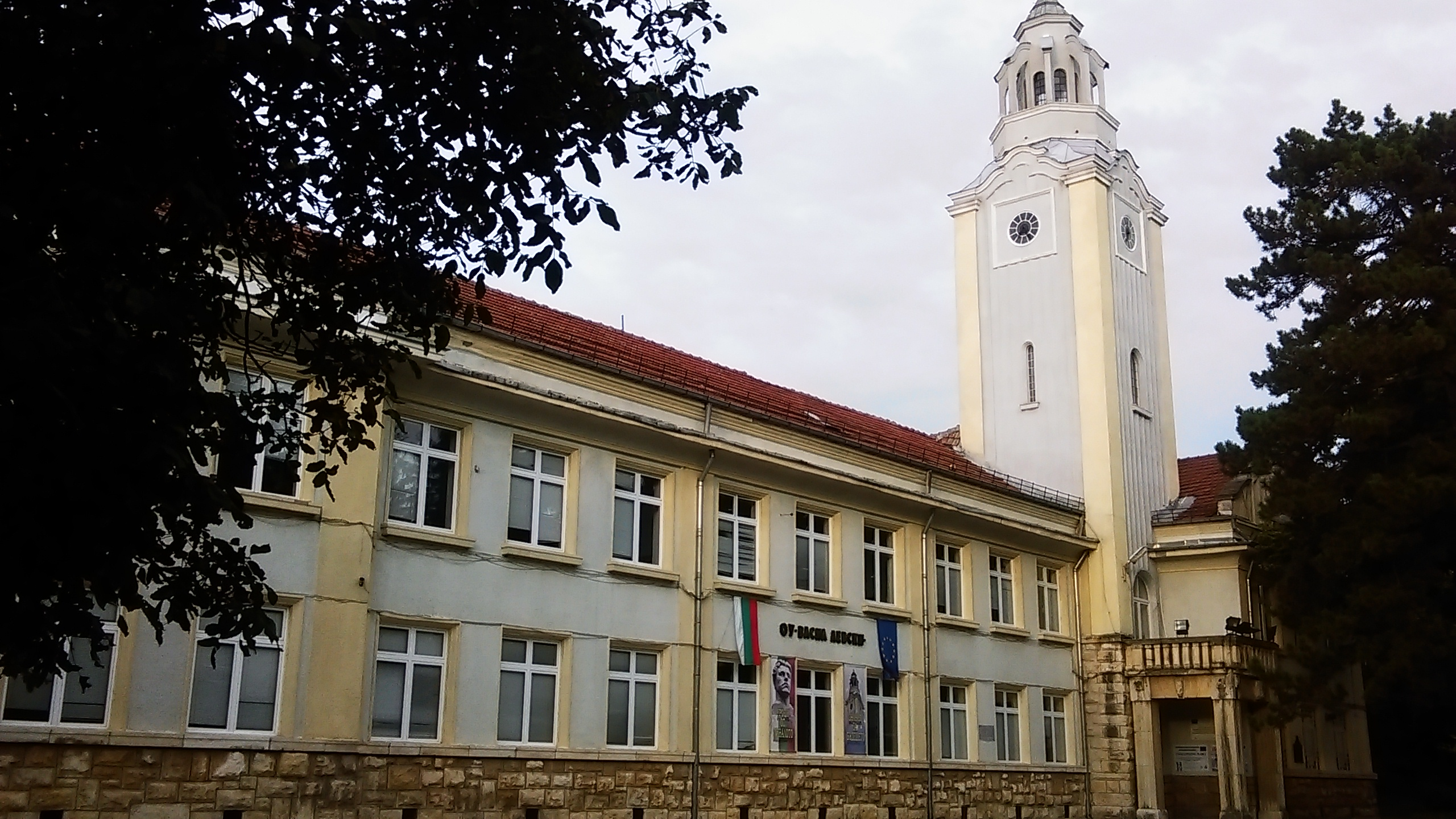 Основно училище „Васил Левски“ - Южната фасада с главния вход и часовниковата кула